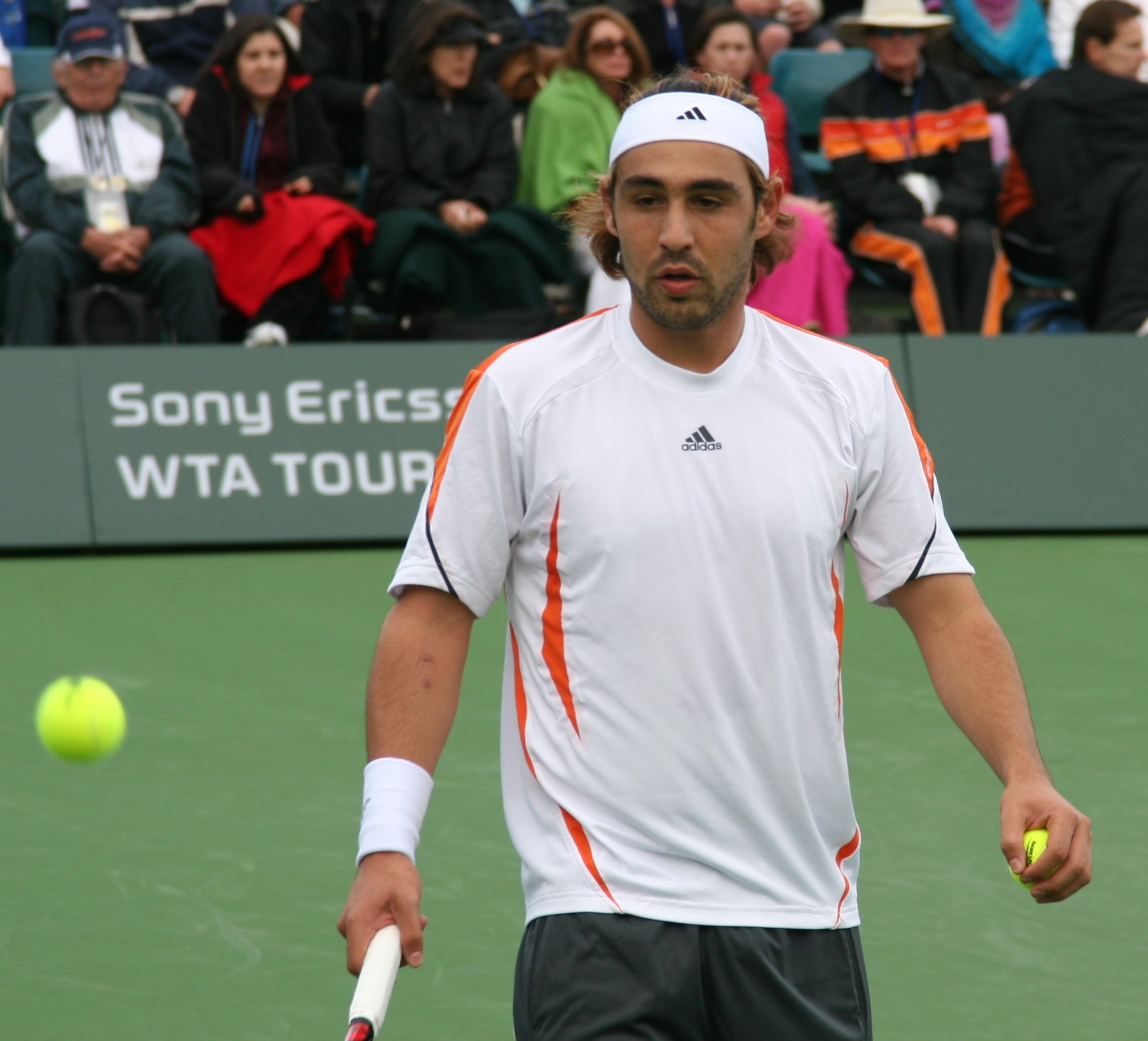 Marcos Baghdatis playing Bjorkman in Indian Wells, California, USA, on a cold day.